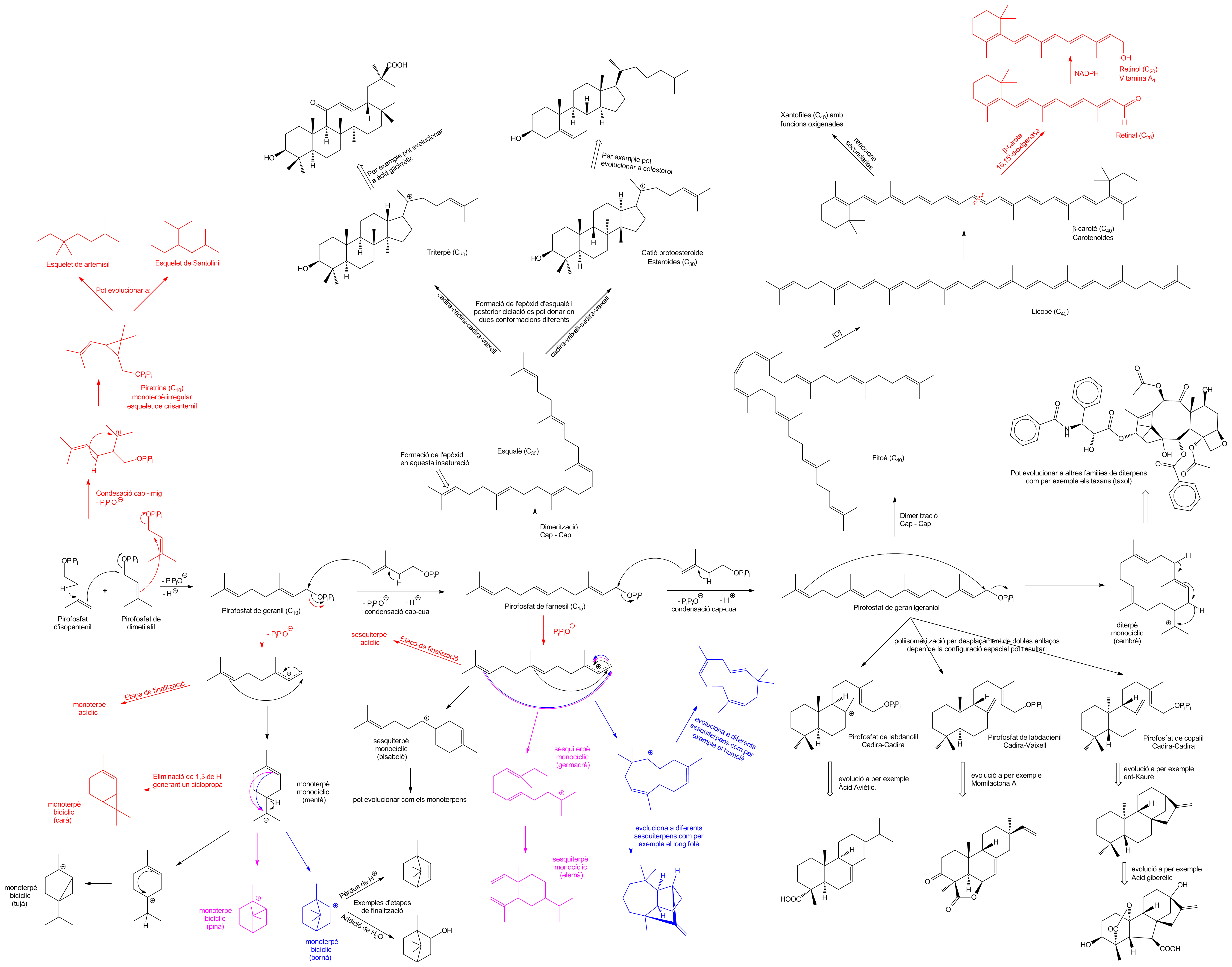 This is a scheme of the main families of terpenes